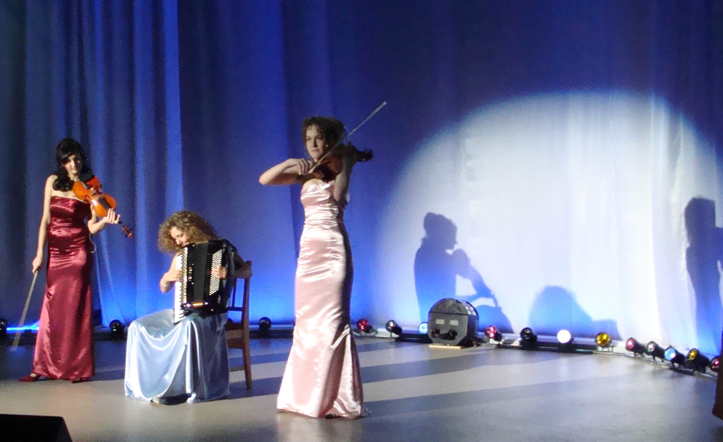 Lady-Hit (trio) in CKiOM (Severodvinsk)